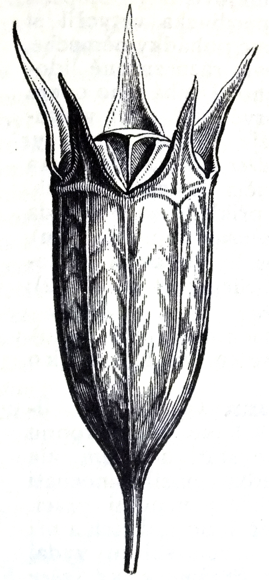 Fruit of Wahlenbergia. Picture published in Otto's Encyclopedia (Ottův slovník naučný).